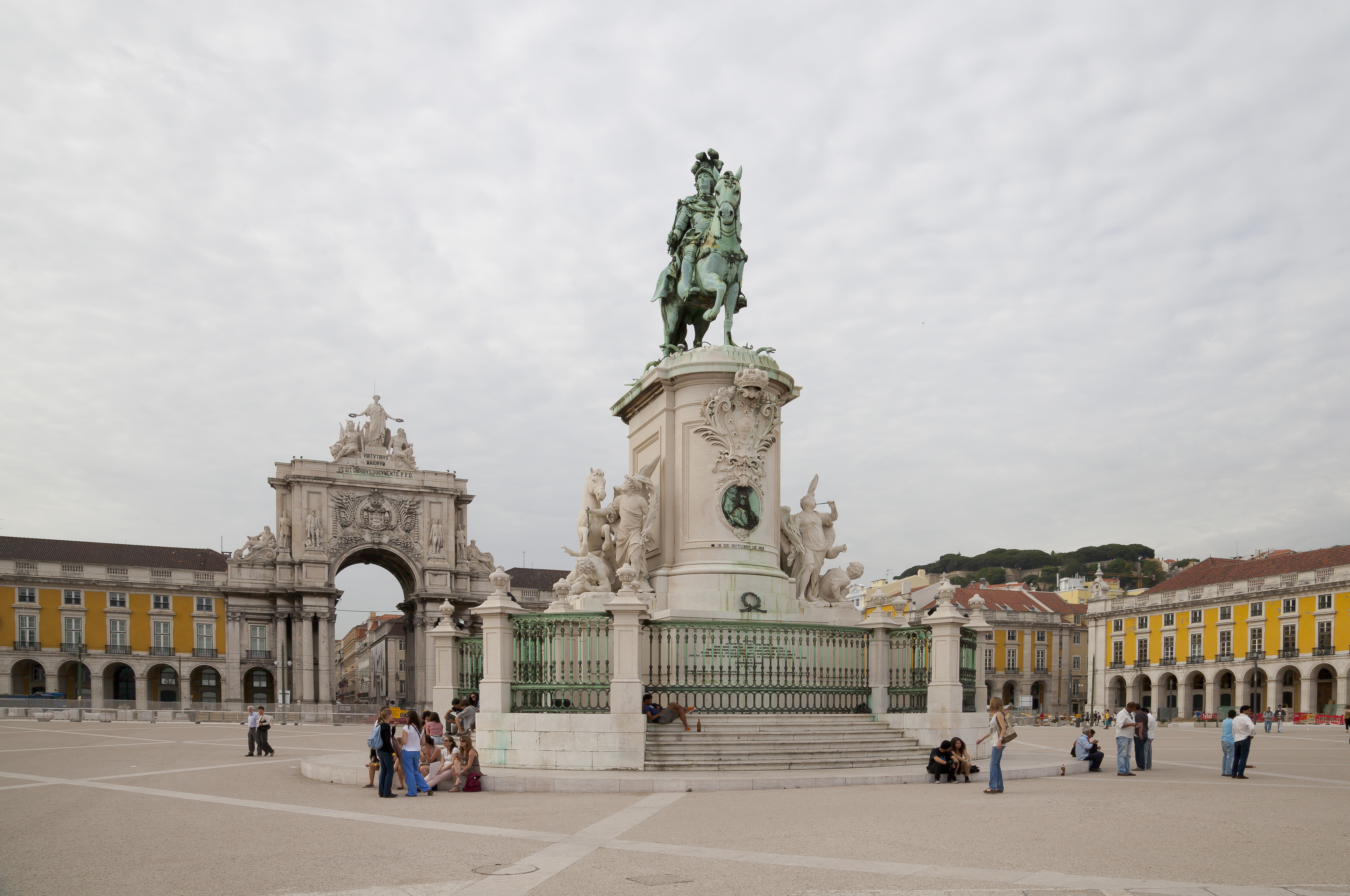 Statue of D. Joseph, Commerce Square, Lisbon, Portugal